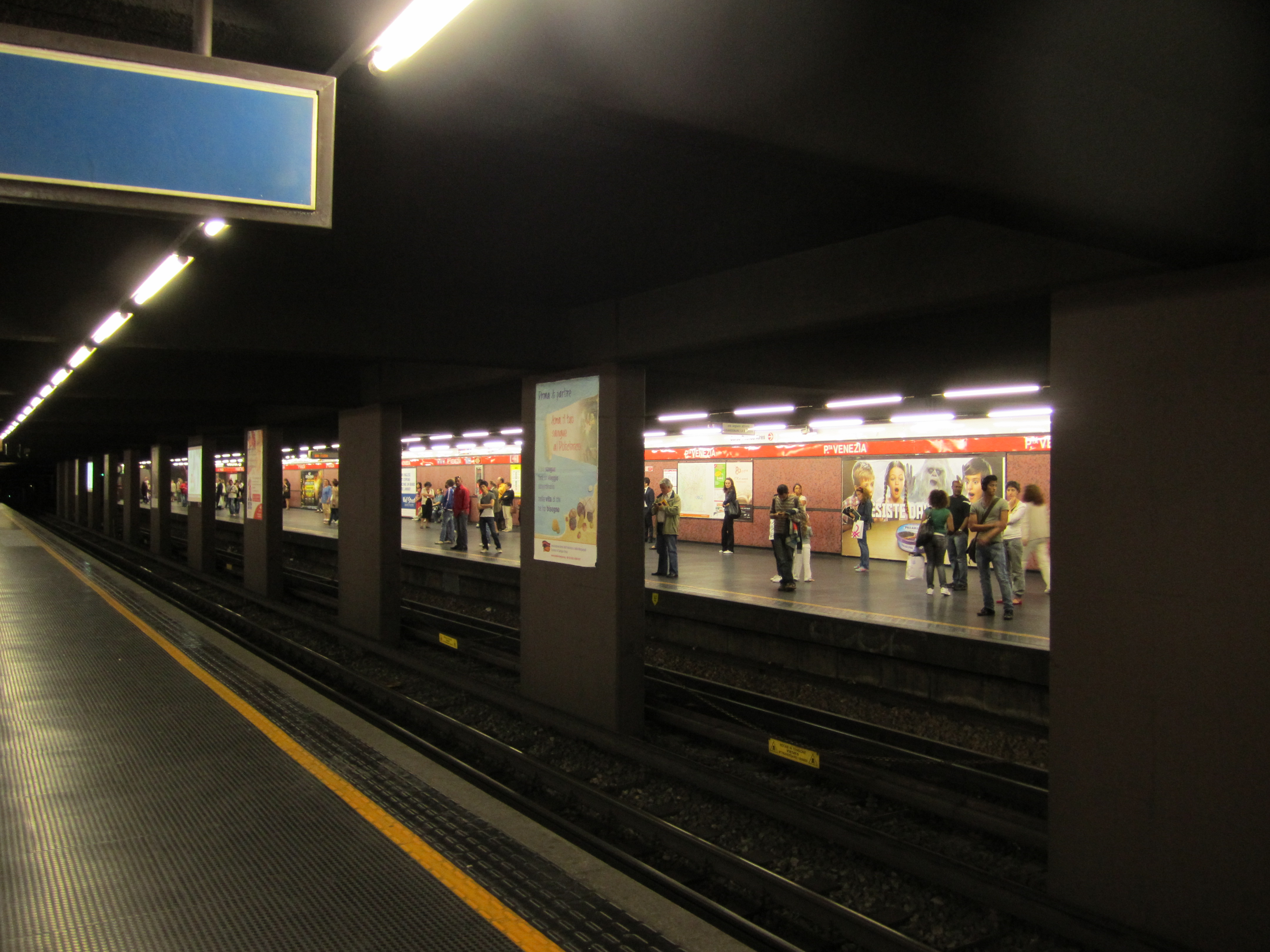 P-ta Venezia metro station (Milano)